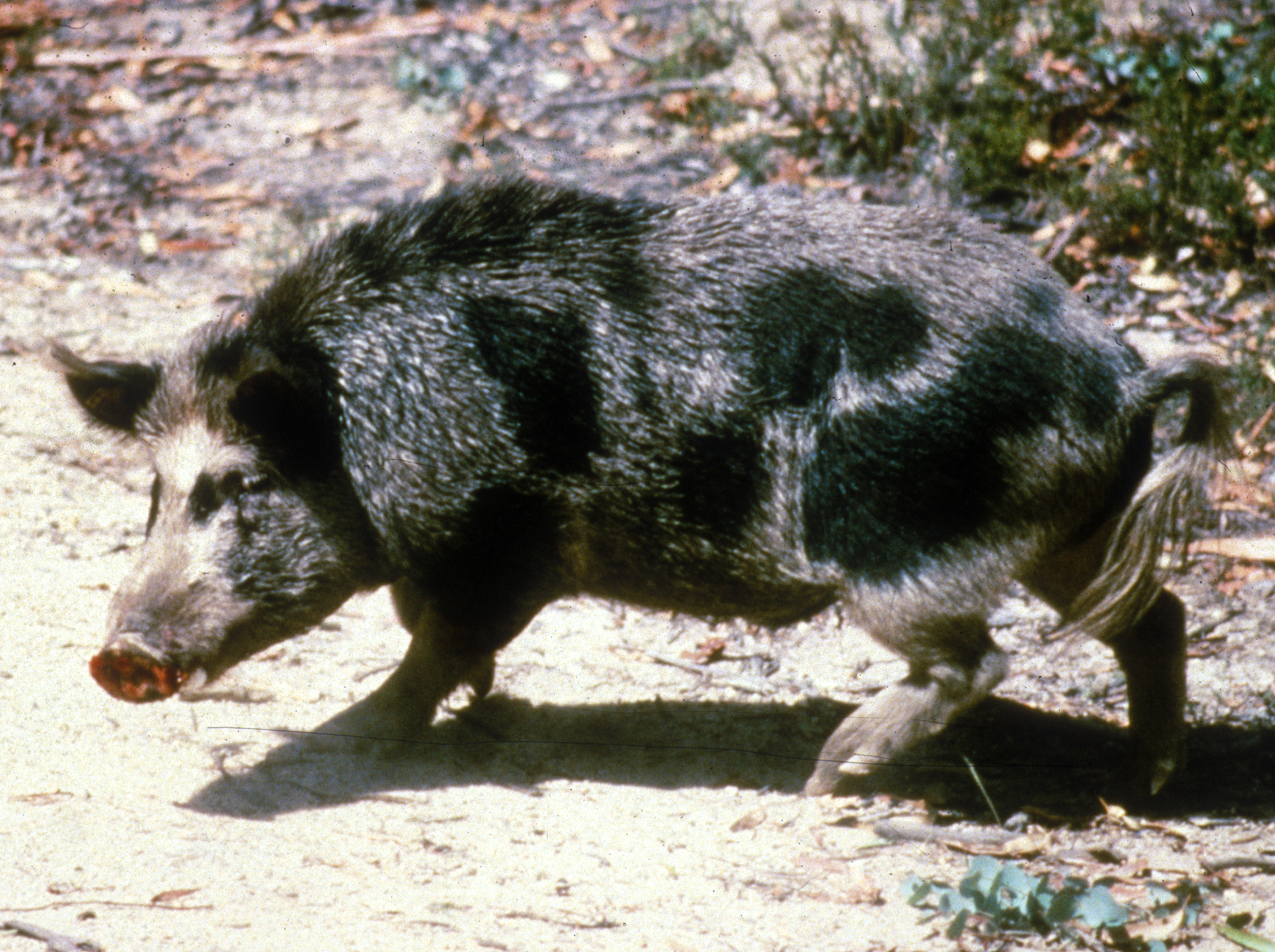 Feral pig (Sus scrofa) Near Canberra, ACT